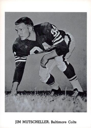 A promotional image of Baltimore Colts player Jim Mutscheller.